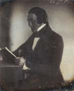 Daguerreotype of professor Martin Hans Boyè, Danish/American chemist